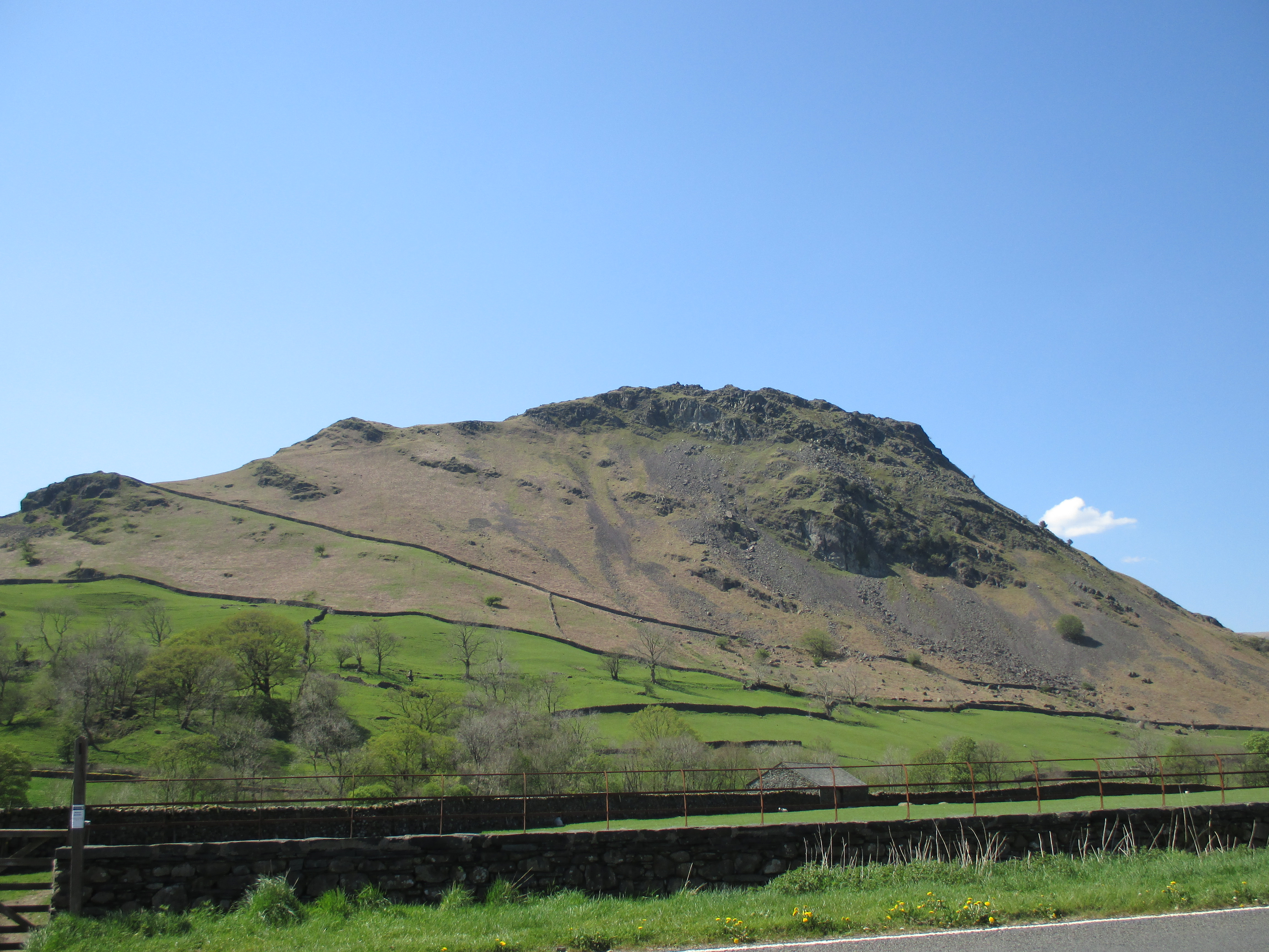 Helm Crag, a mile north-west of Grasmere village, seen from near the Traveller's Rest pub one mile north of Grasmere village.